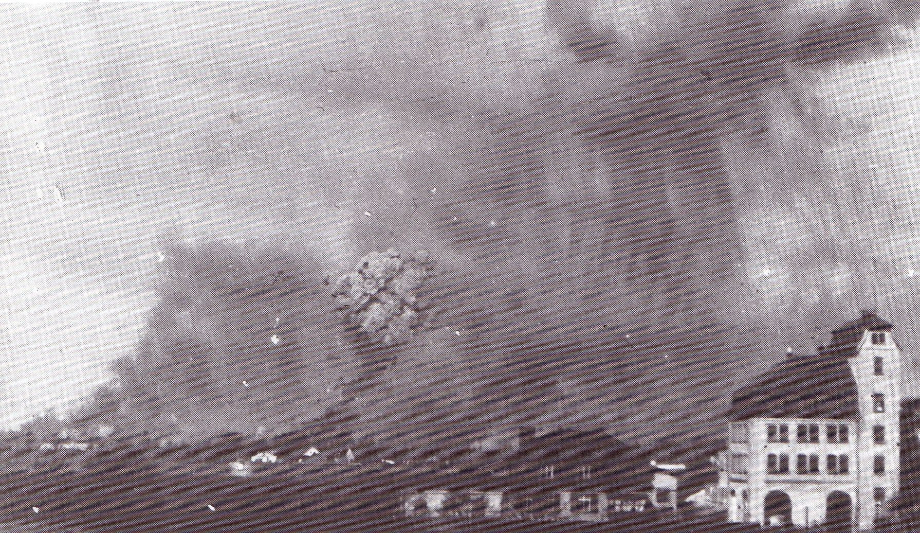 Photography of the Rothenstein disaster, April 10th, 1920